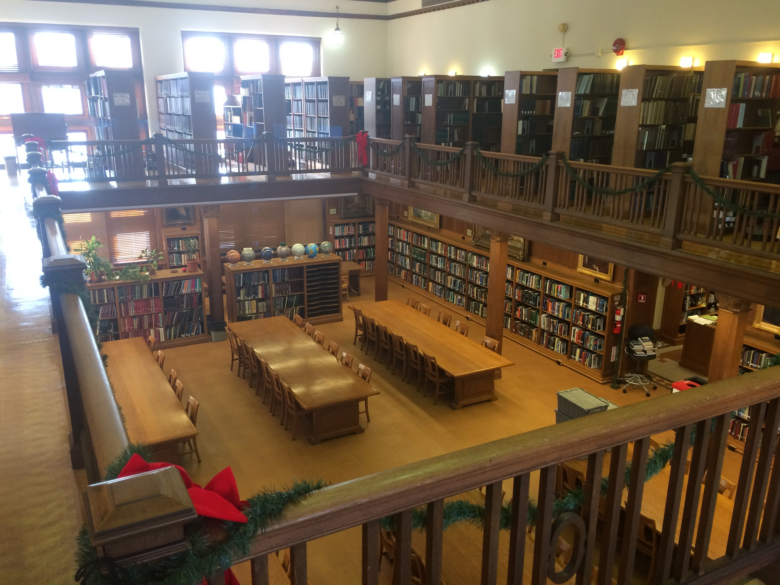 Orton Hall (The Ohio State University) - Orton Memorial Library of Geology, view from balcony